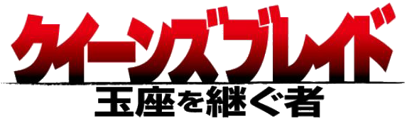 Logo of Queen's Blade: Gyokuza o tsugumono anime series.